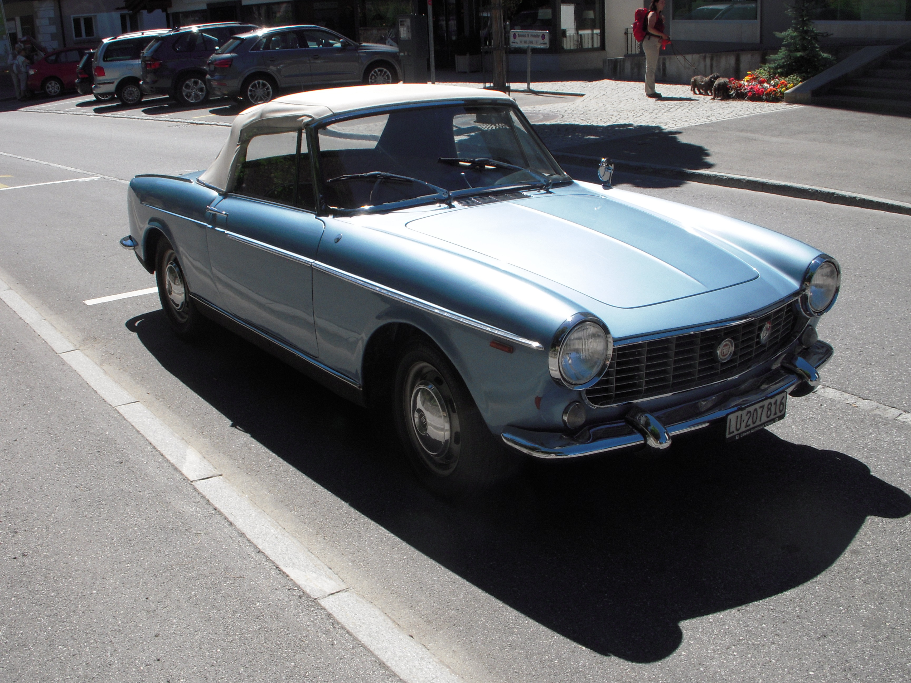 Fiat 1500 Cabriolet in the street in Klosters, Graubünden, Switzerland. August 18, 2012.